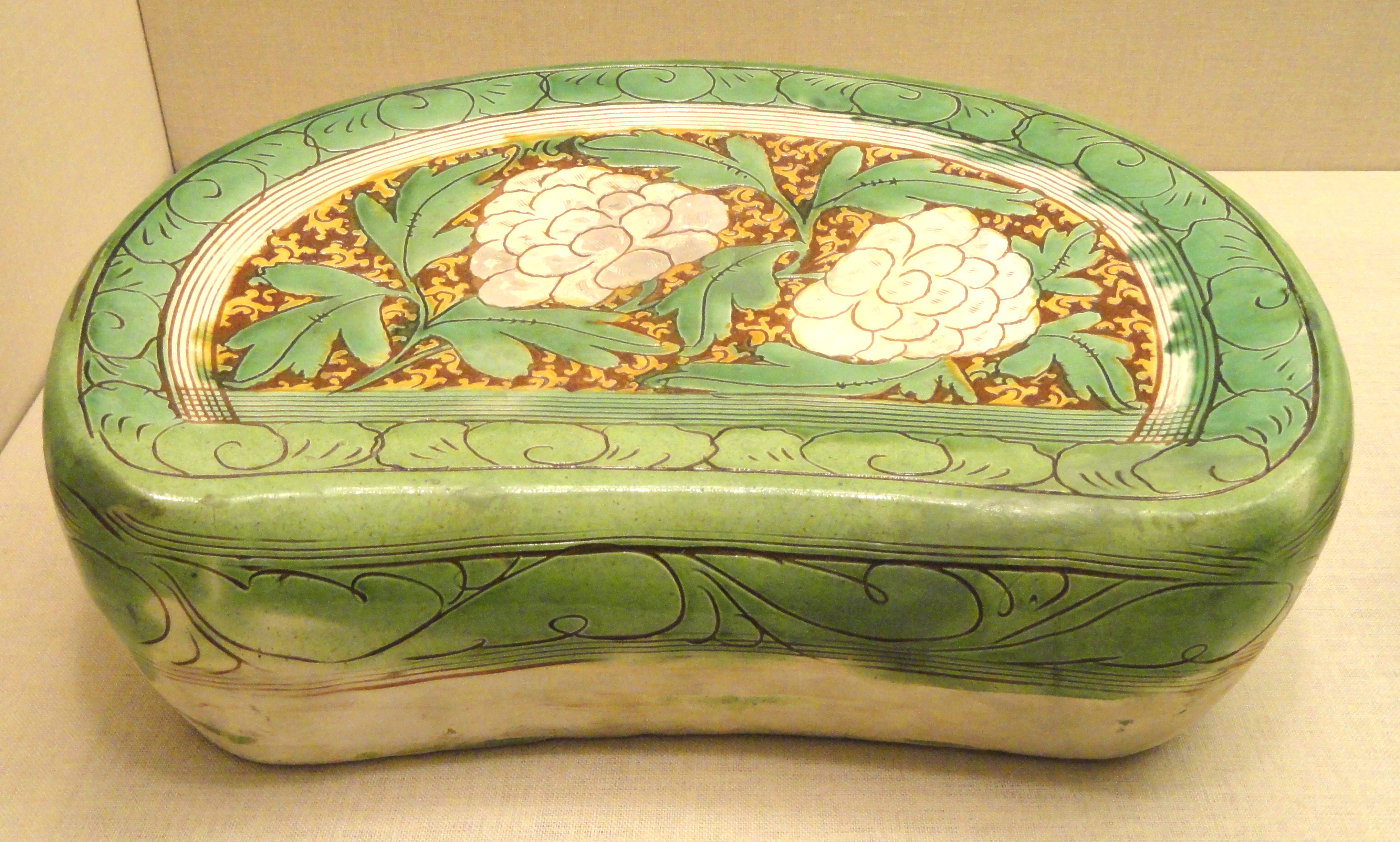 Exhibit in the Art Institute of Chicago, Chicago, Illinois, USA. This artwork is in the public domain because the artist died more than 70 years ago.